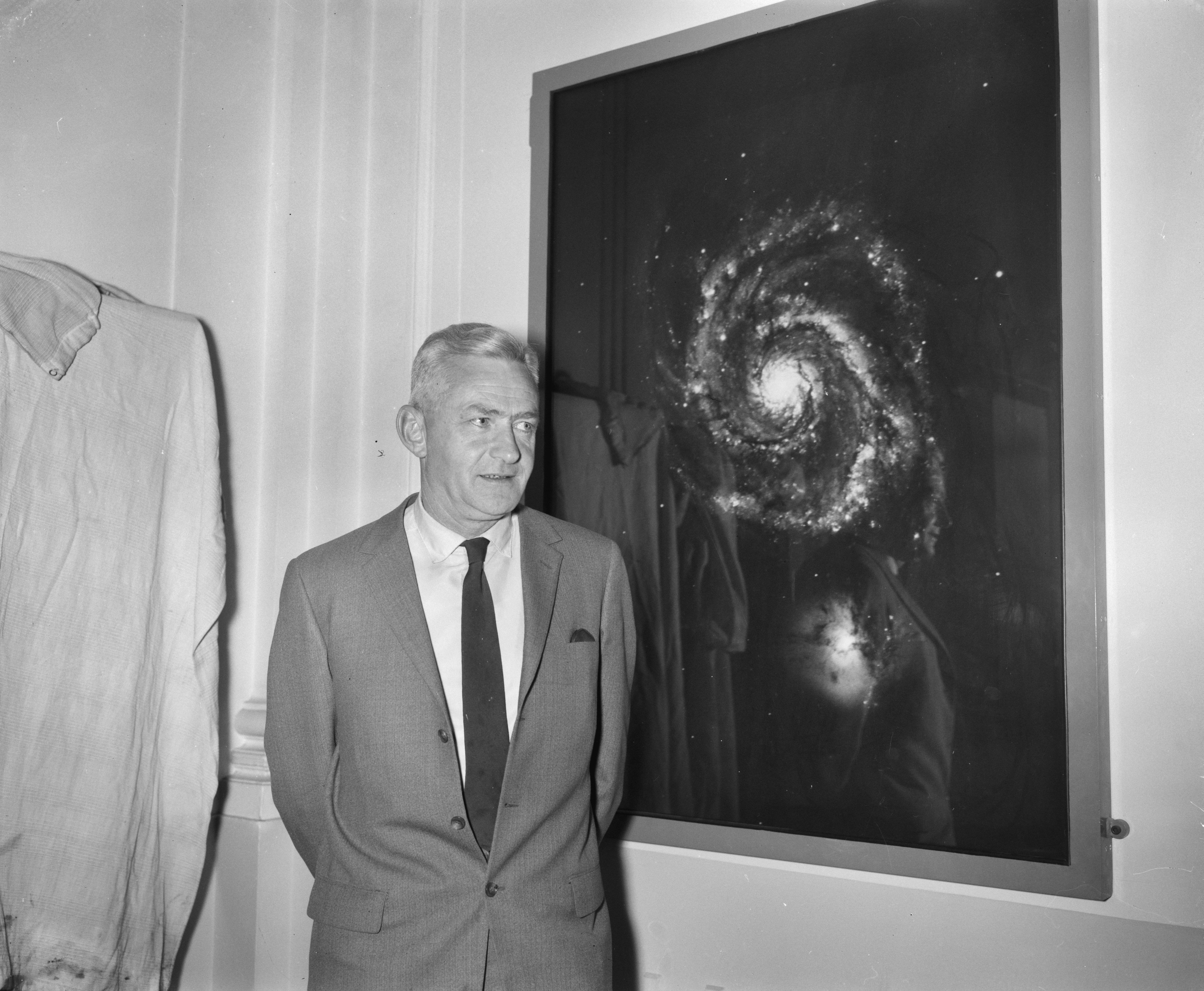 Dutch astronomer Pieter Oosterhoff, vice-director of the Leiden Observatory. Leiden Observatory Centennary, 1961.